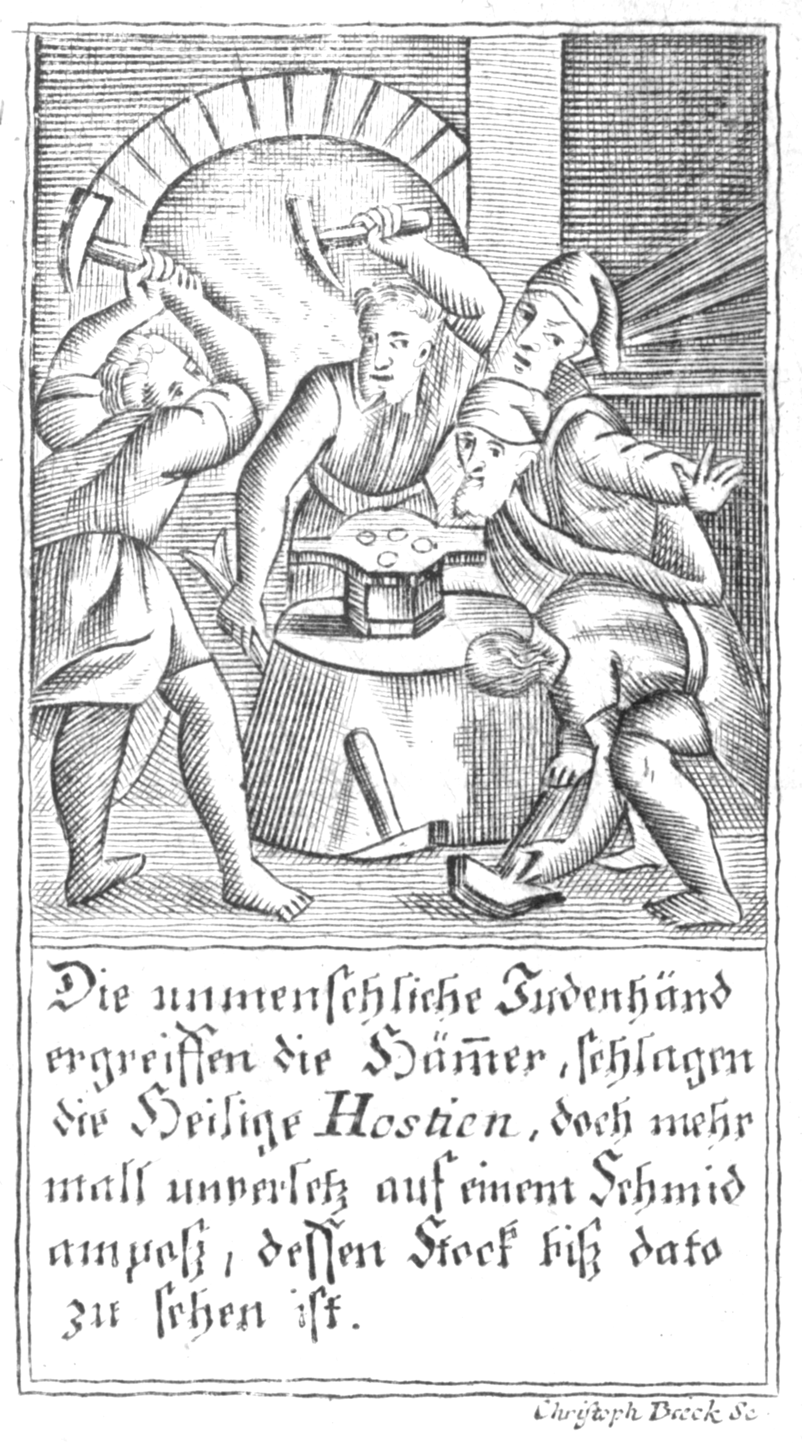 prayer book, Deggendorf, Bavaria 1776